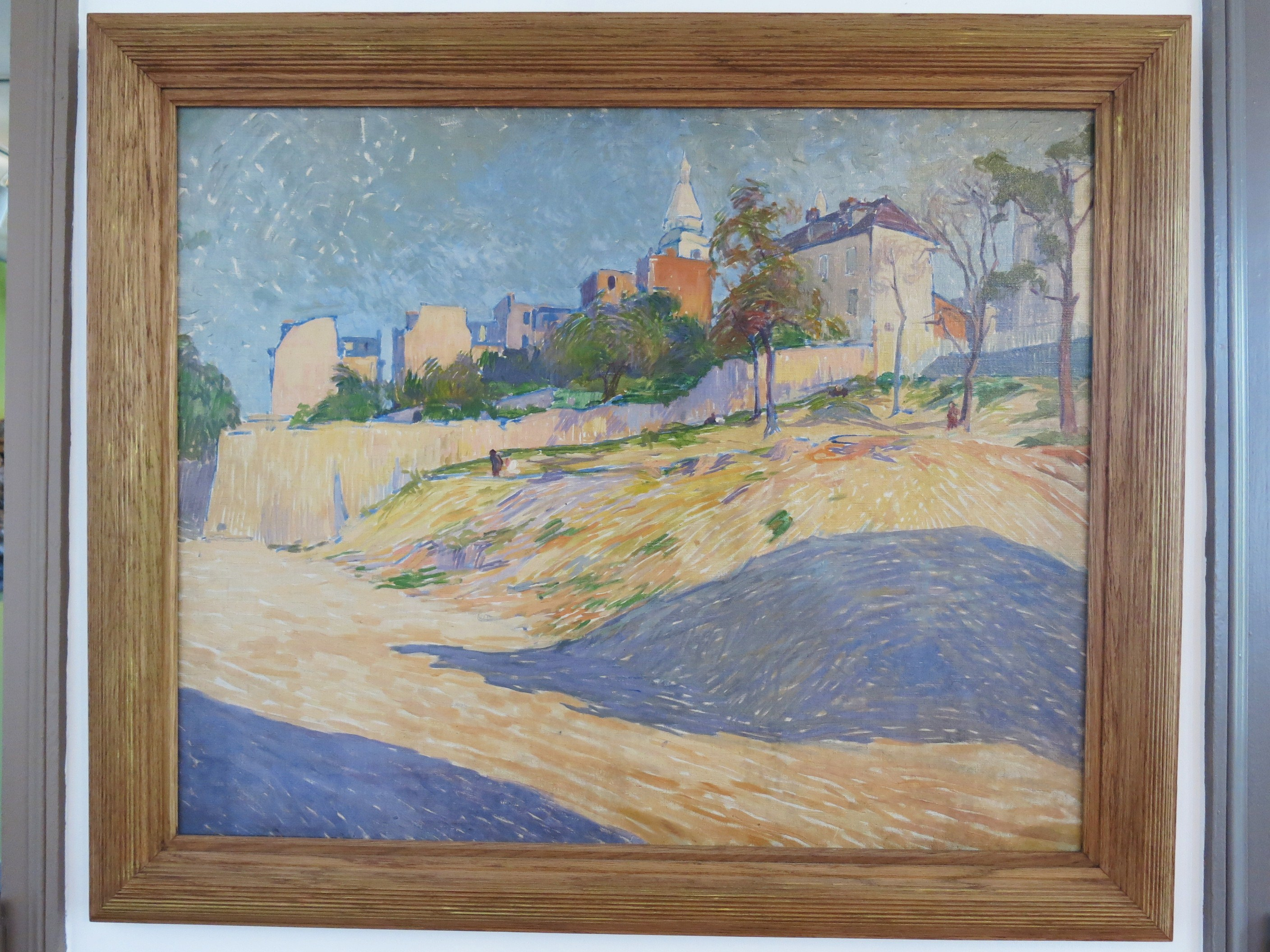 Garden in Montmartre : Place of the vineyard of Montmartre before plantation of grapes in 1933(Paris 18th arrond., France). Preserved in Montmartre museum.